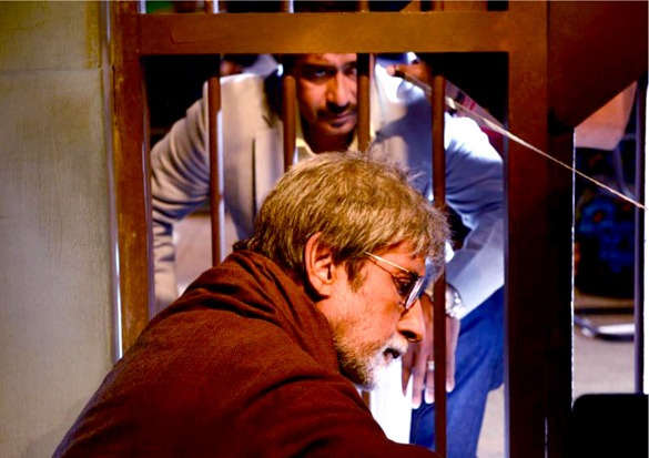 Bachchan and Devgan on the sets of the 2013 film Satyagraha.